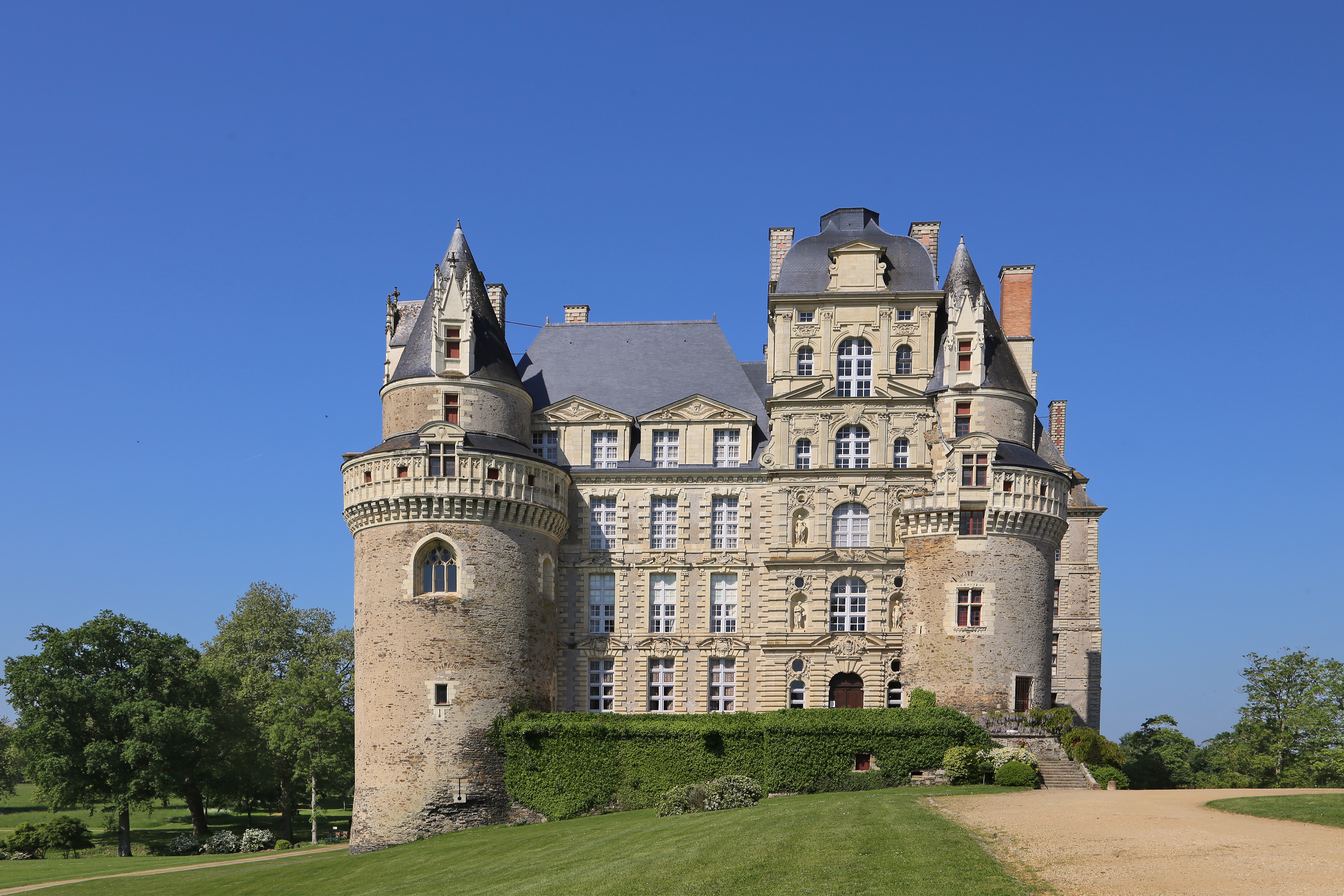 Brissac Castle (Château de Brissac) in Brissac-Quincé is at 7 Floors and 240 rooms, one of the largest Loire castles.